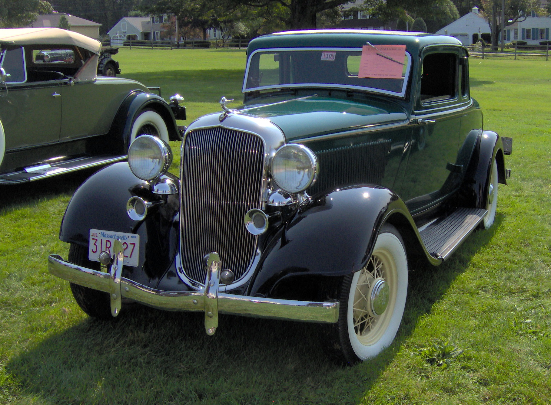 1933 Plymouth Deluxe Six coupe